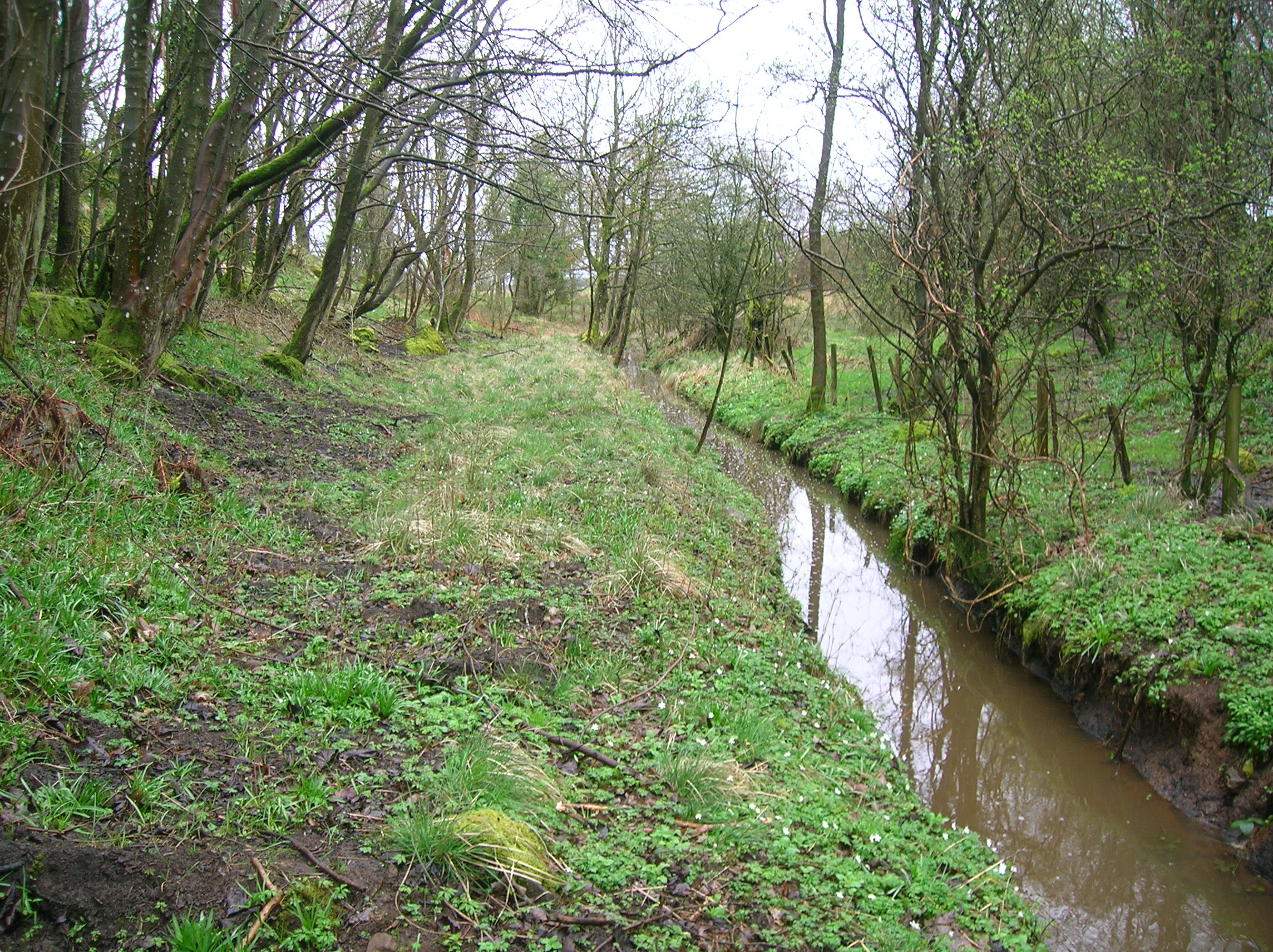 At the Slough of Despond, Slough Burn, South Ayrshire, Scotland. Looking north.